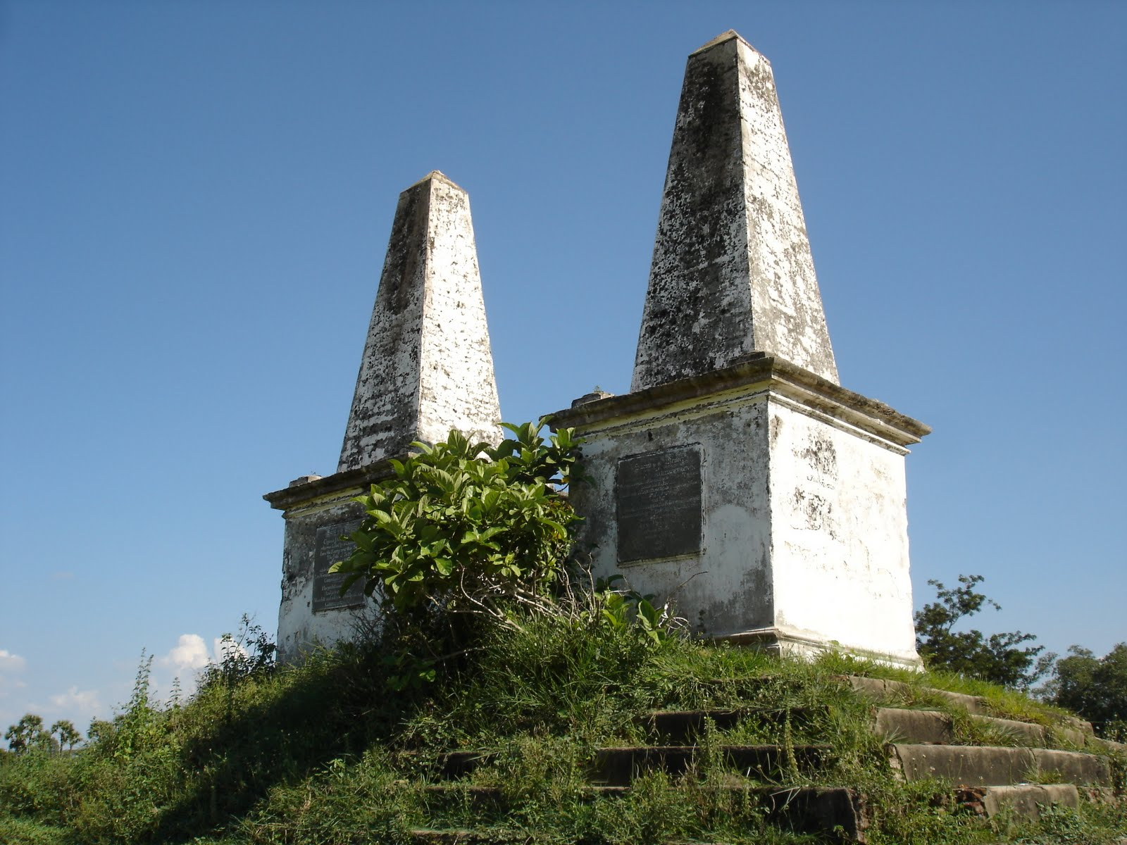 Front view of the obelisks at Pullalur battle site, notice they are on a raised platform with steps leading to them. They are not well maintained which is attested by the growth of grass in the steps and small plant at the top